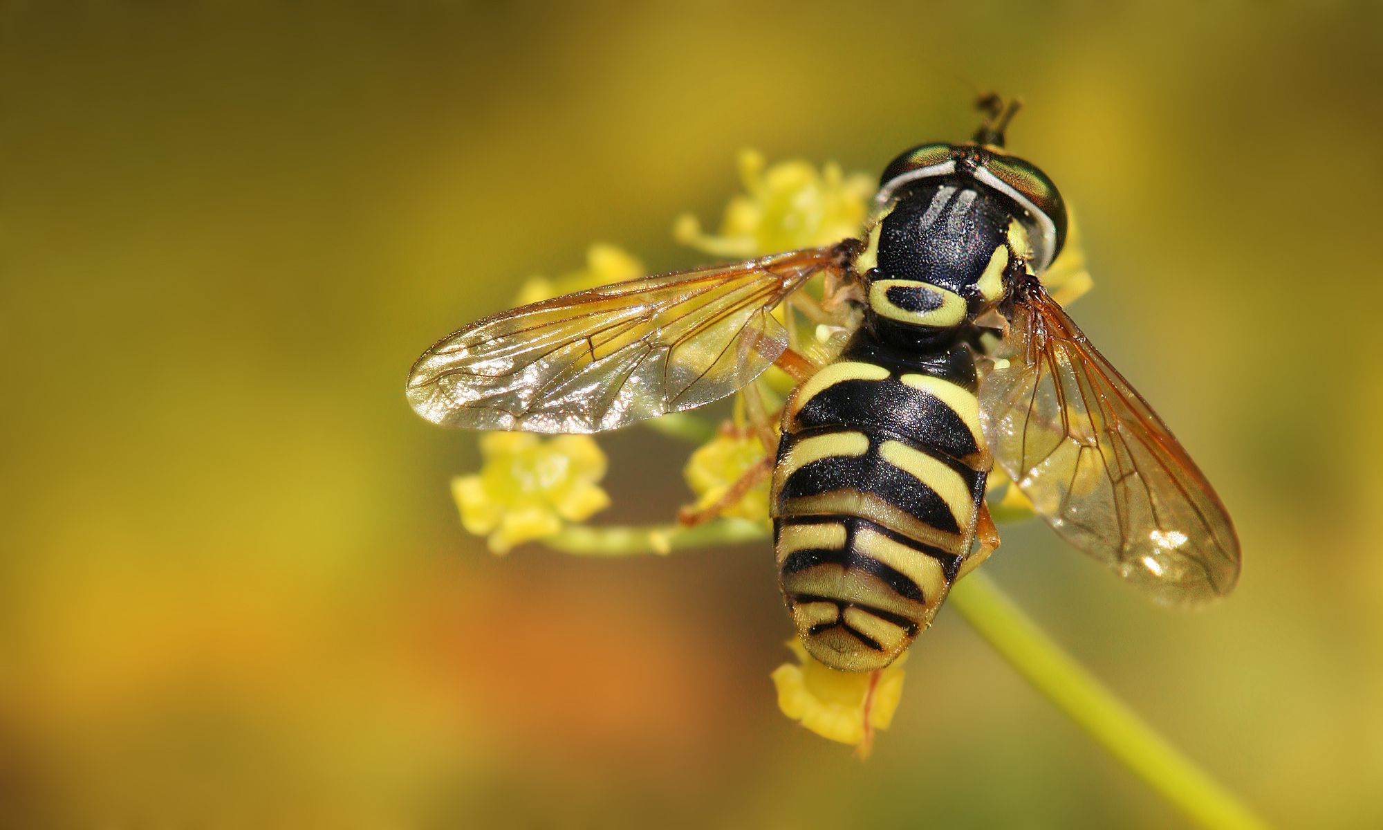 Description: Flies in the Diptera family Syrphidae are commonly known as hoverflies, flower flies, or Syrphid flies. As shown a (Chrysotoxum verralli)